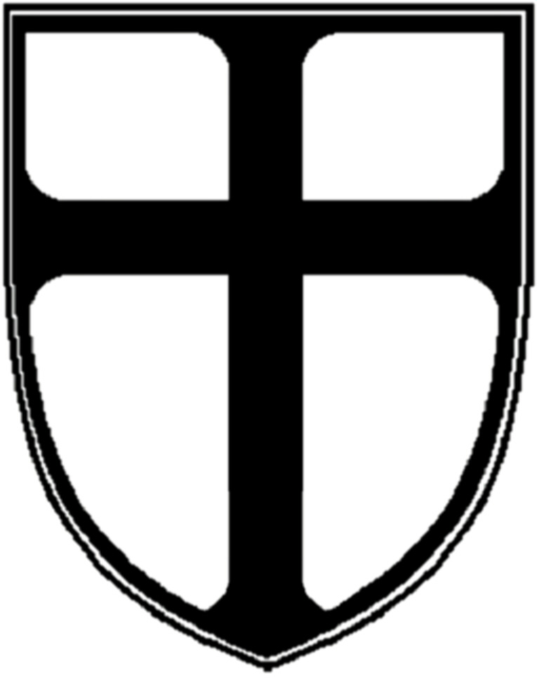 Internal coat of arms of the Bundeswehr (Armed Forces of the Federal Republic of Germany). → Remarks on naming and categorization scheme Wappen des 7. Schnellbootgeschwaders der Bundesmarine/Deutschen Marine